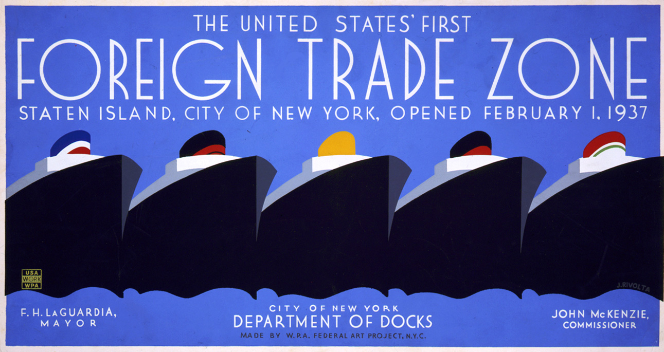 Poster for the City of New York Department of Docks, showing five ocean liners. Text: "The United States' first foreign trade zone: Staten Island, City of New York, opened February 1, 1937."